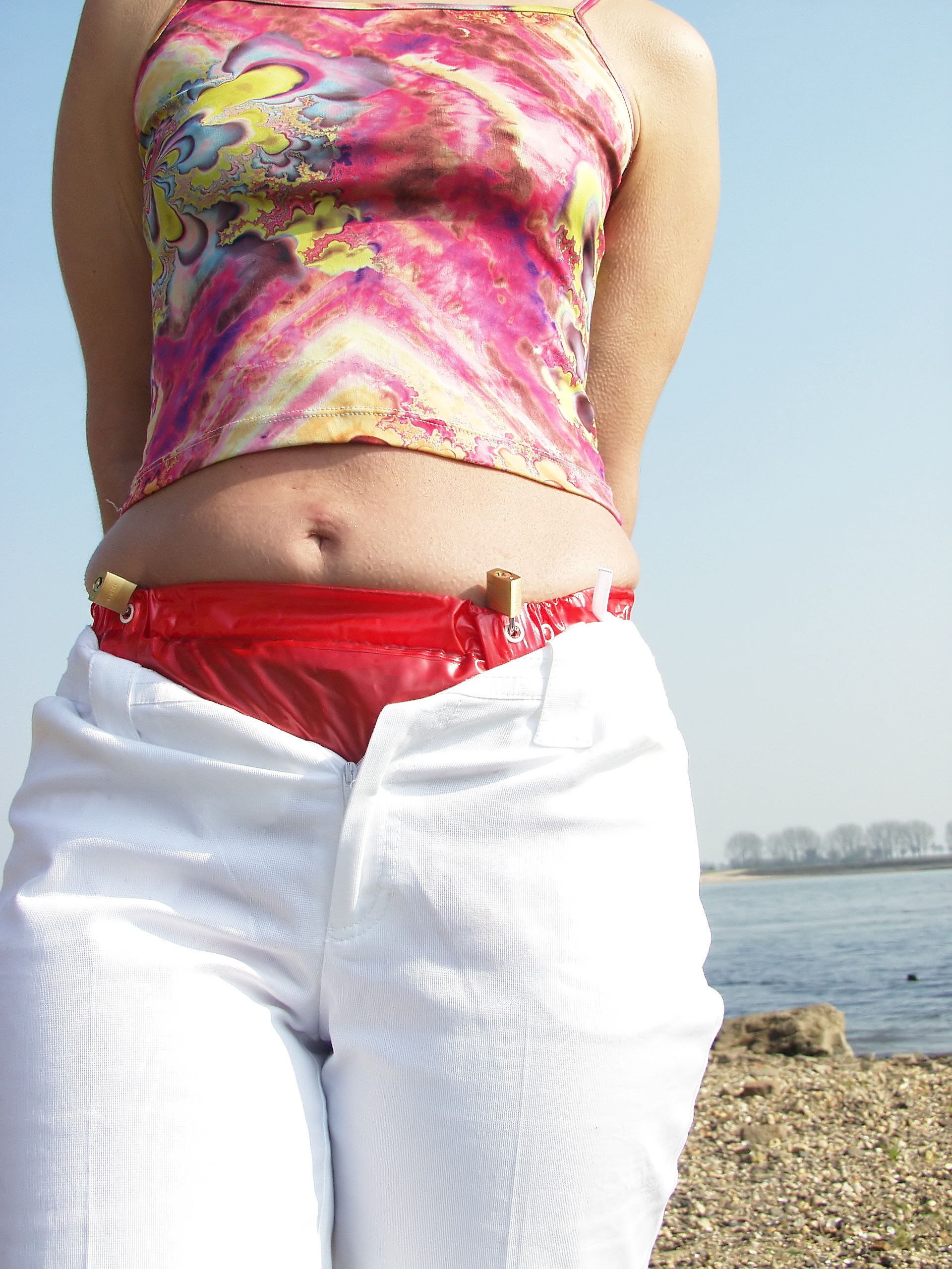 A woman with pampers and red PVC-diapers, secured against removing by 2 padlocks at the waistband